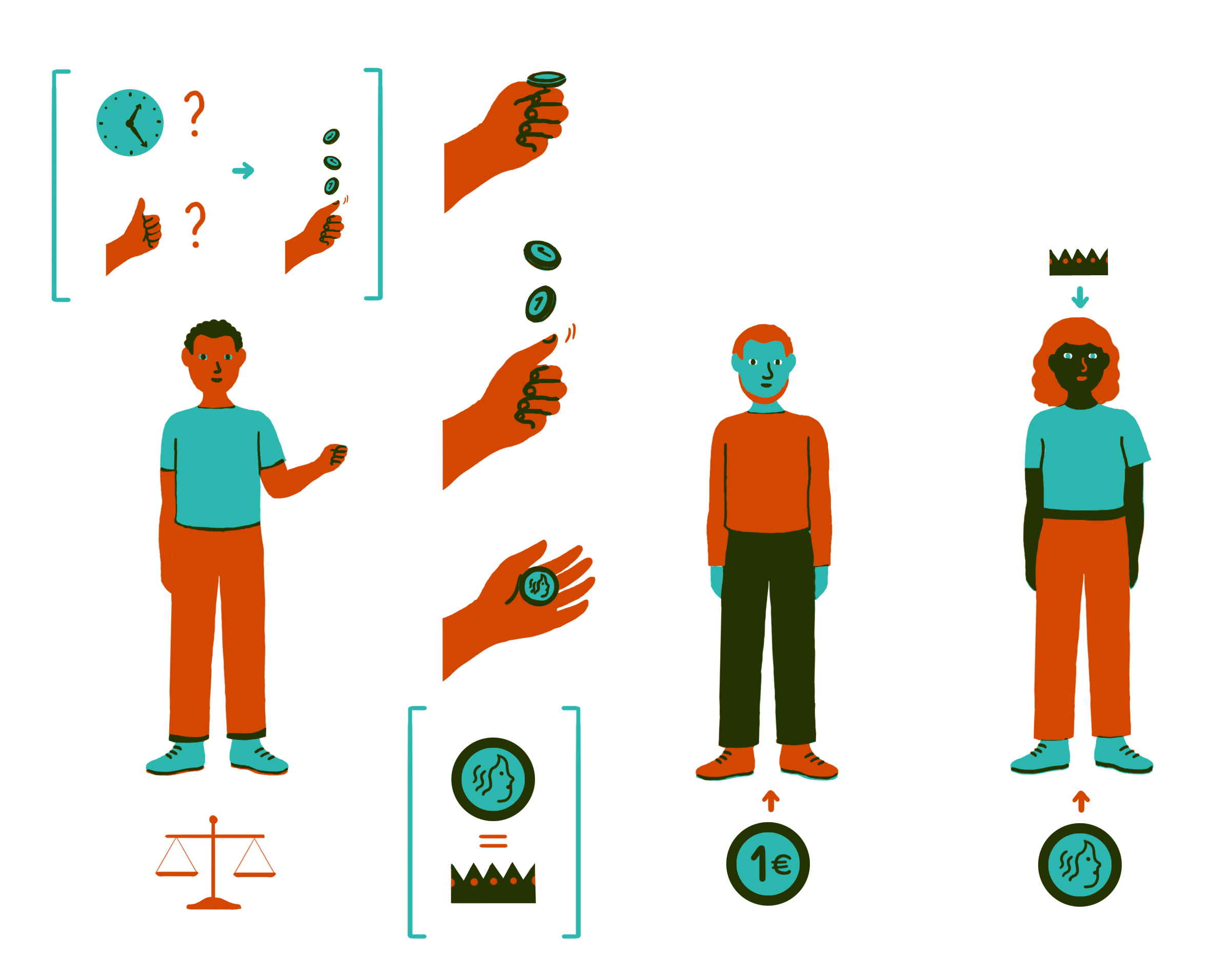 This drawing describes how you can elect and restart the election of a moderator (crown) with a coin. The thrower (balance) needs to declare a minimal time before restarting an election. She or he also needs to declare a minimal number of thumbs up before restarting an election.